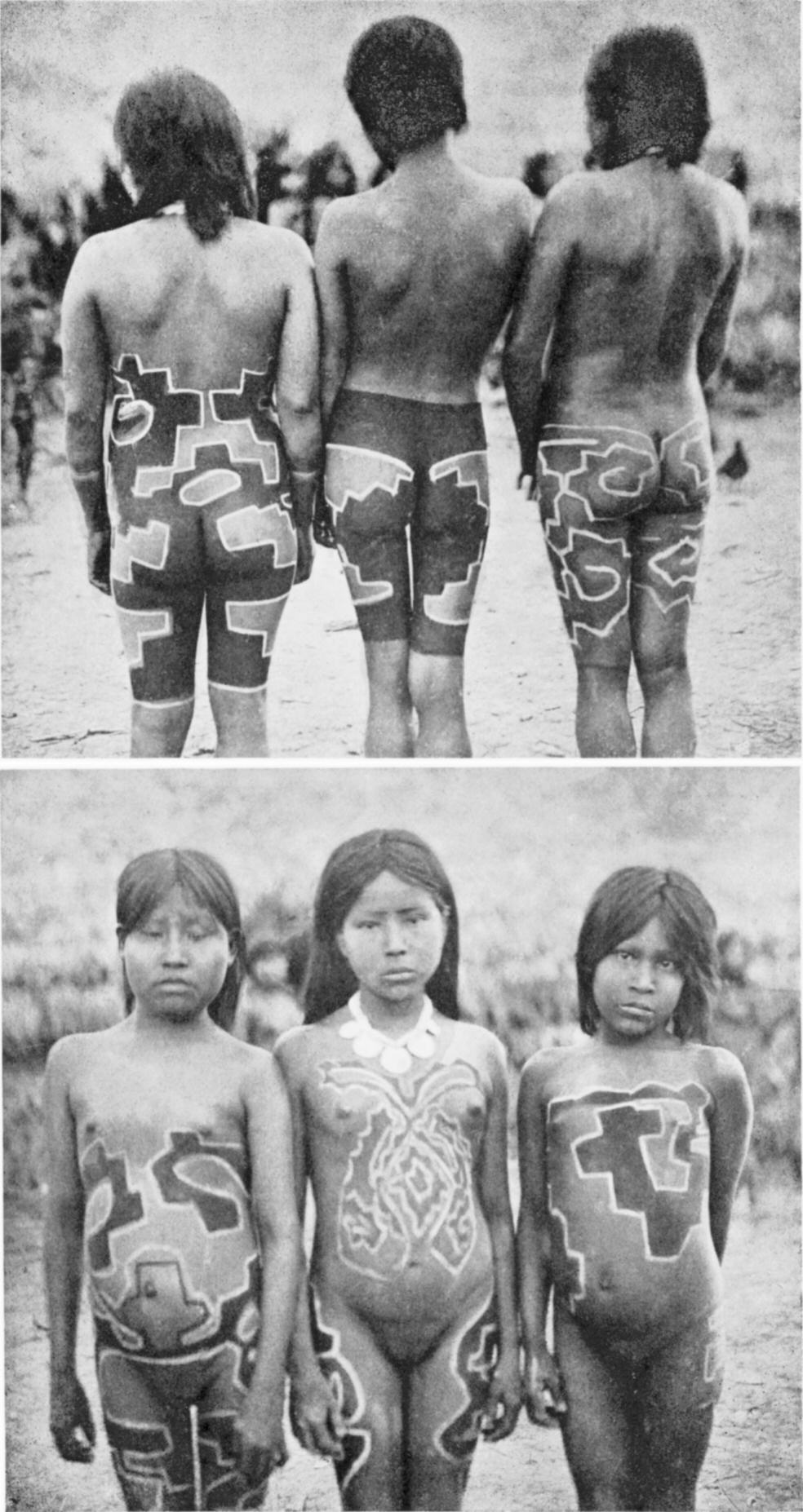 Okaina girls painted to dance. (Today Okaina / Ocaina are a part of Uitoto